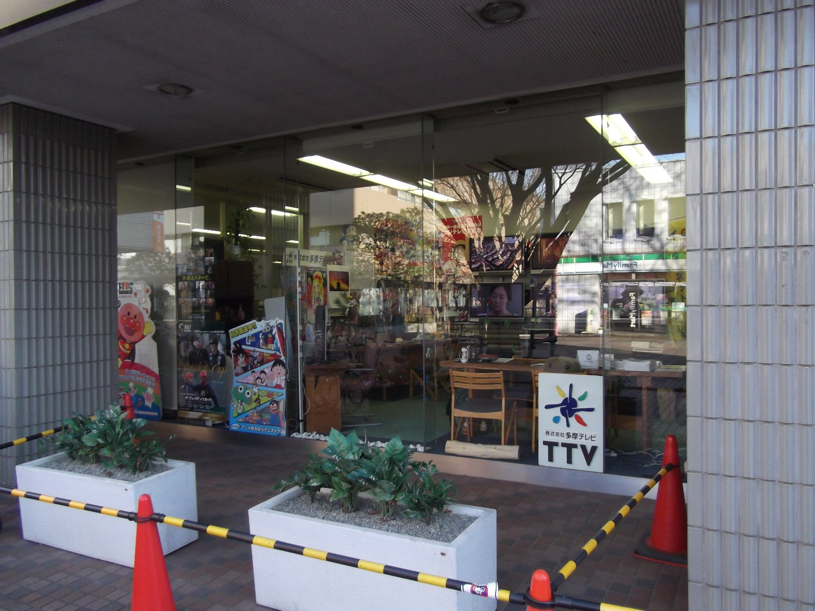 Tama Television headquarters.